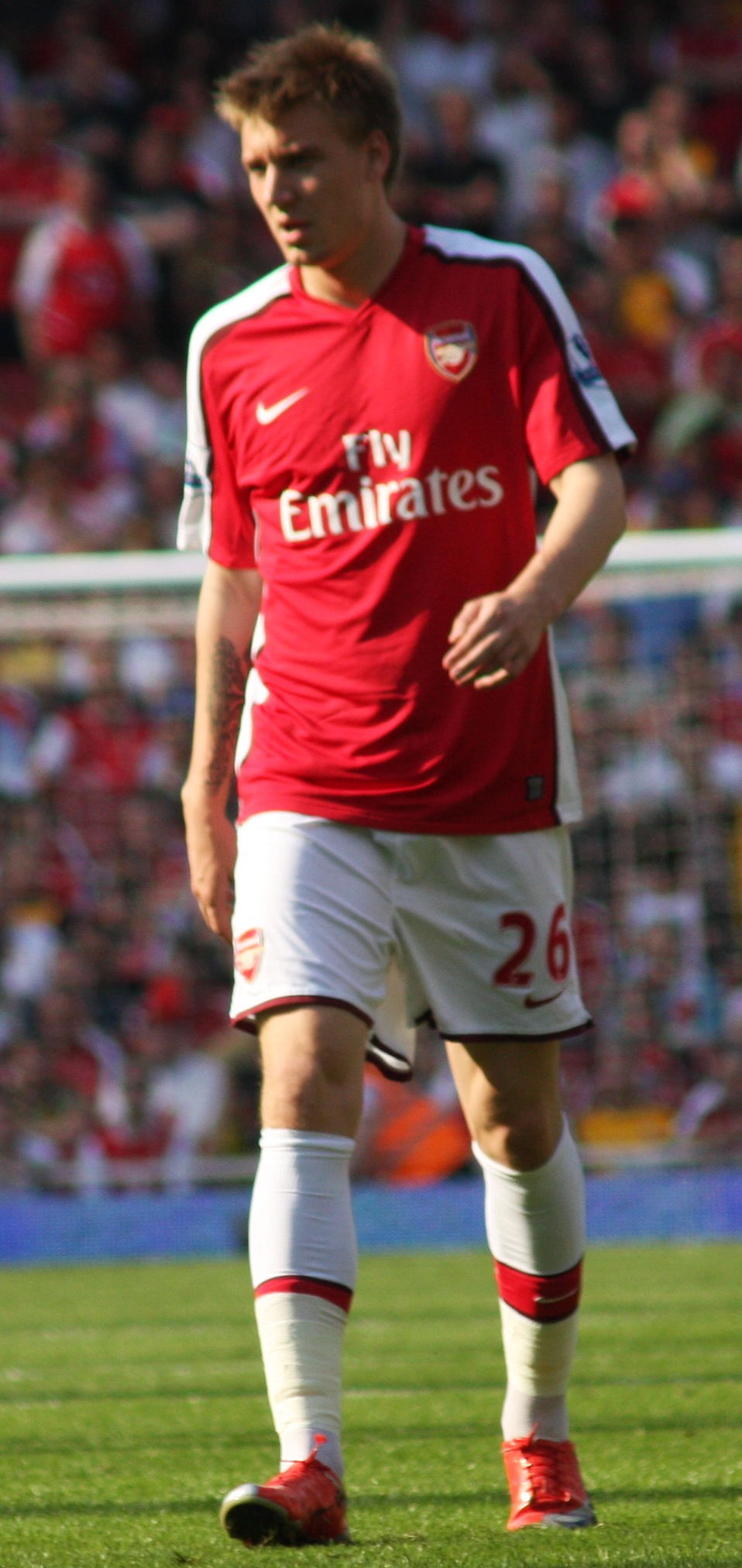 Arsenal v Stoke City FC - Nicklas Bendtner